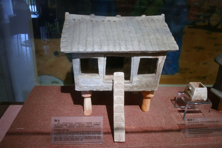 A Chinese pottery model of a granary supported by stilts and approached by a wooden plank, from the Eastern Han period (25–220 CE).